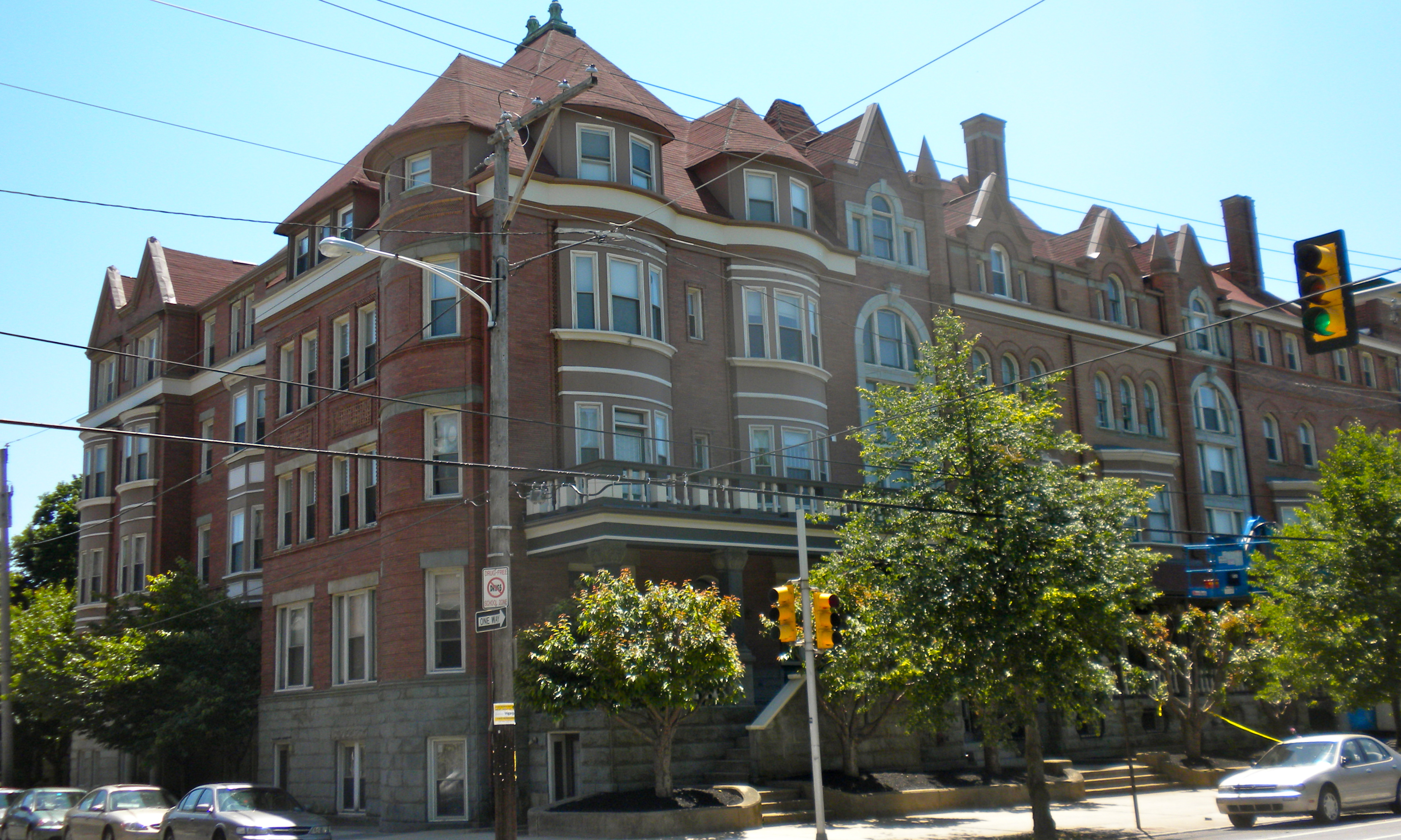 The Powelton on the NRHP since December 13, 1978. At 3500–3520 Powelton Avenue, 214–218 35th Street, and 215–221 36th Street in the Powelton Village neighborhood of west Philadelphia, PA. Near Drexel U and U Penn campuses